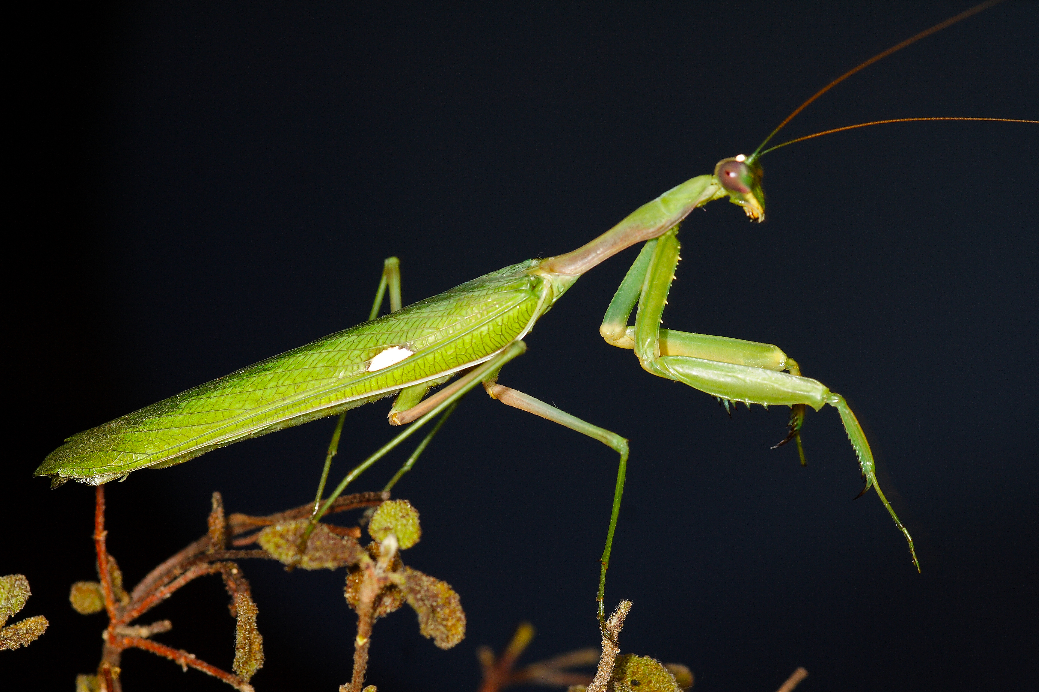 Male Sphodromantis viridis from near Campono Maior (Évora) – credit Eduardo Marabuto.